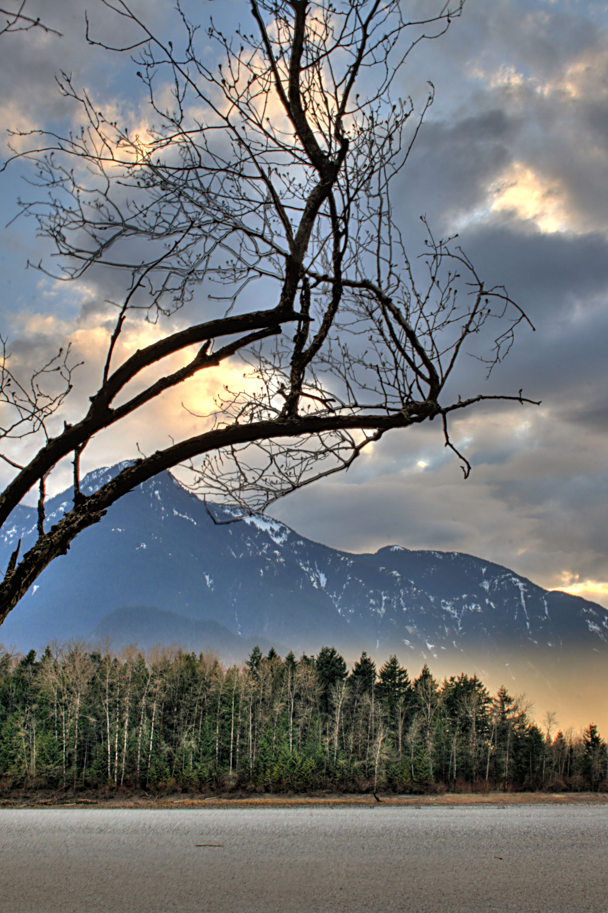 View of the Fraser River from downtown Hope, British Columbia, Canada.